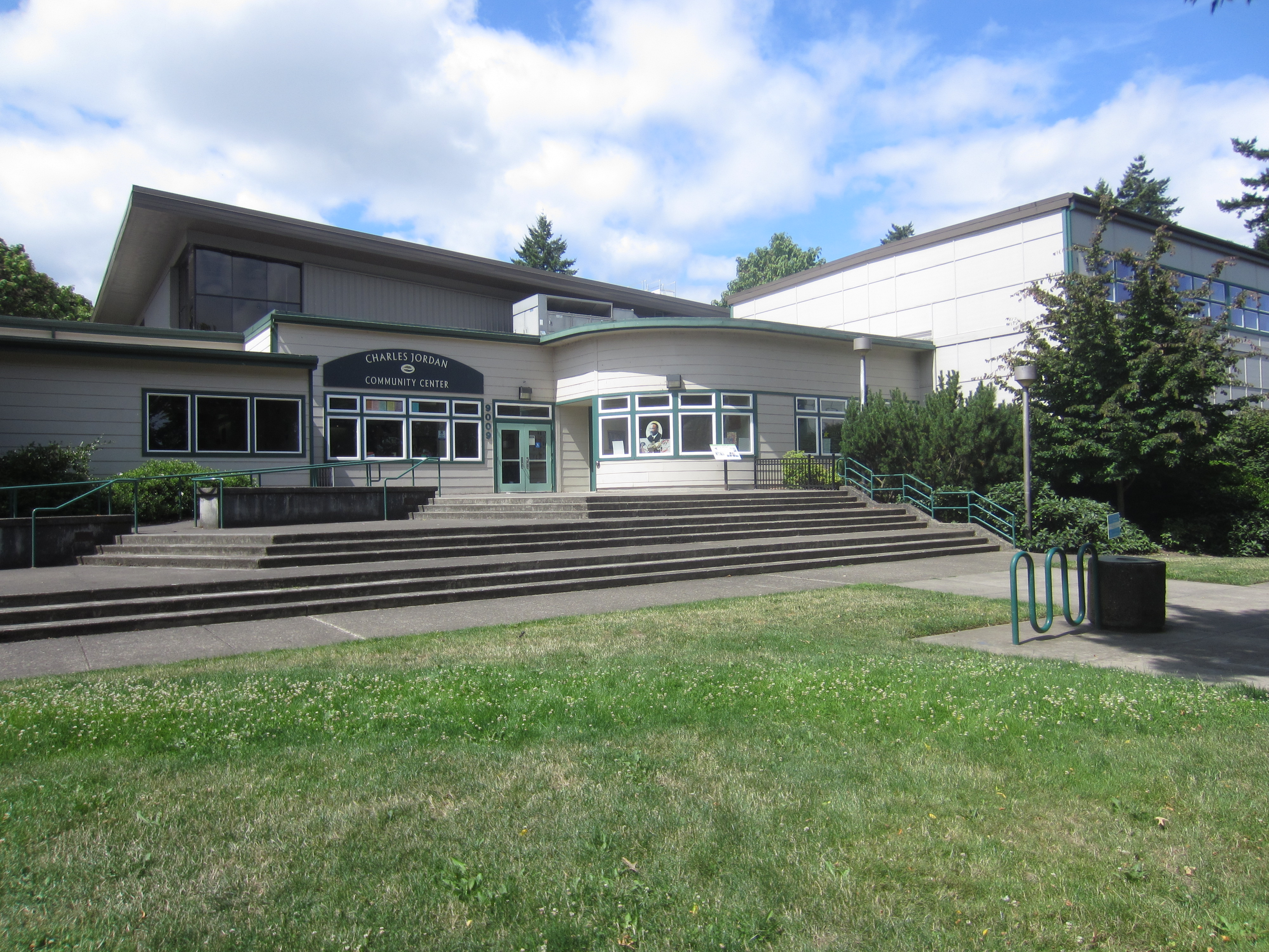 North Portland, Oregon (2019)